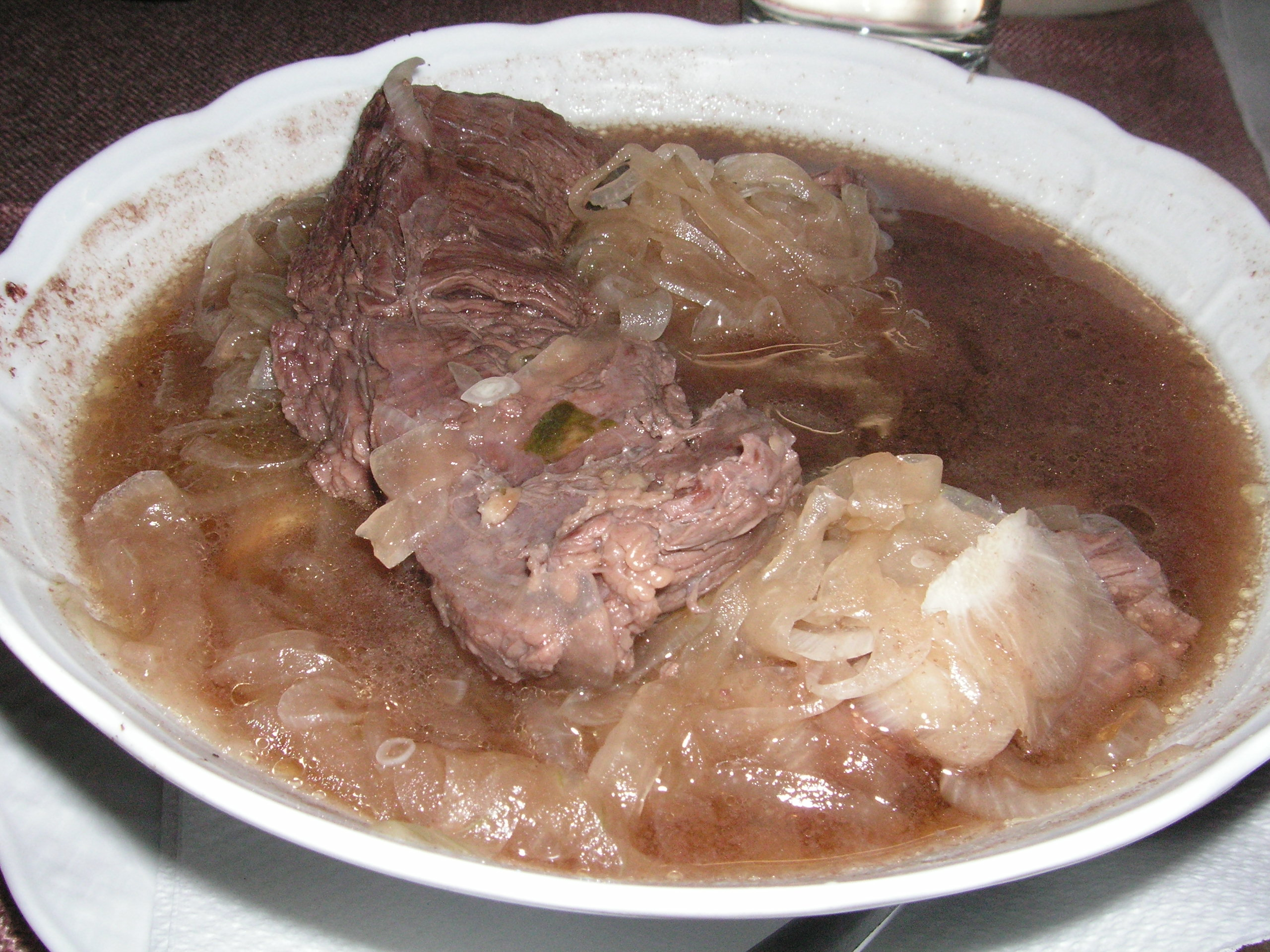 Kronfleisch (skirt steak), served in hot broth with onion rings.